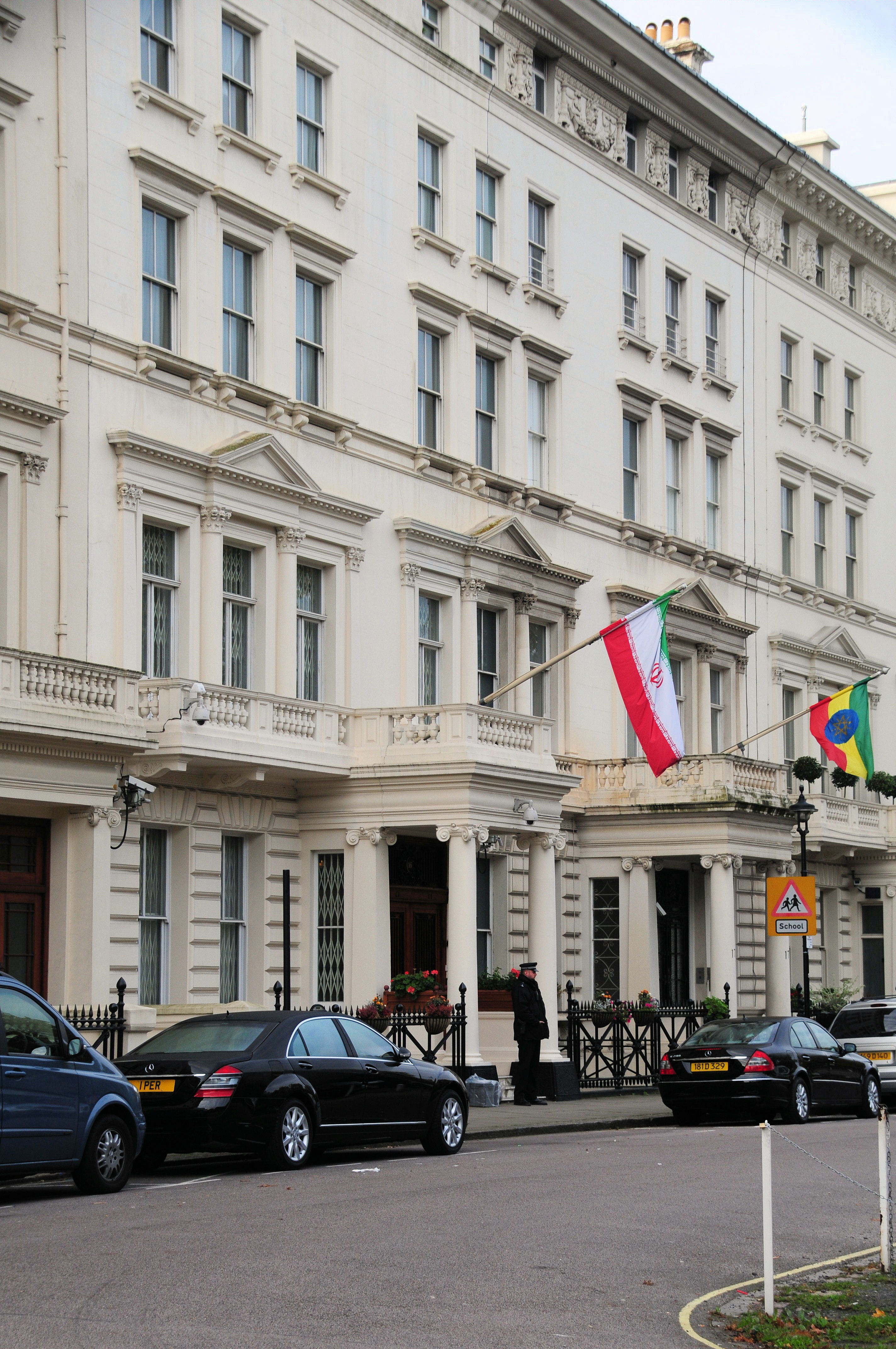 16 Princes Gate, South Kensington, London; the Iranian embassy and scene of the 1980 Iranian Embassy siege.